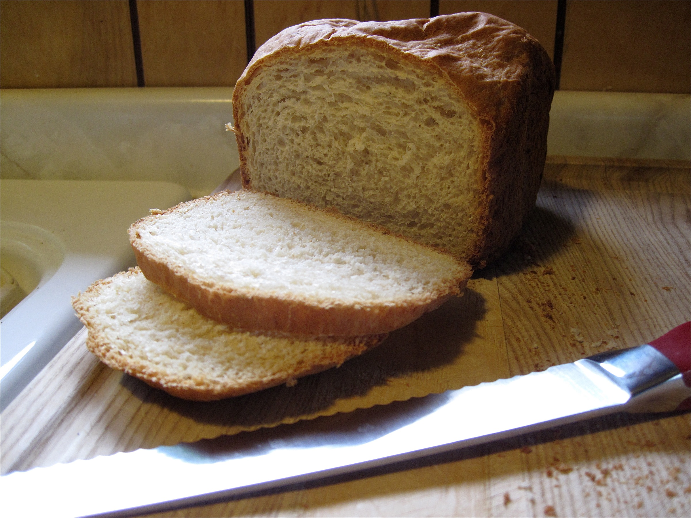 This morning I got to eat some sourdough toast from the bread I made last night. Something about that makes me feel so frontier-like.. well excepting the electric bread making machine and the packaged mix. One step at a time.